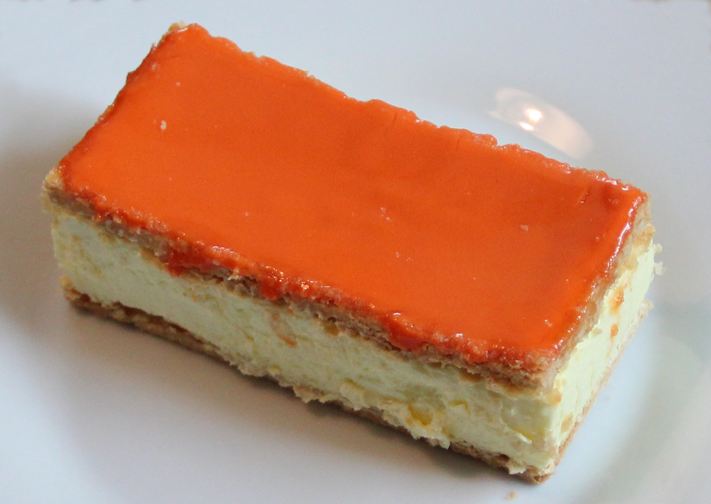 Orange tompouce (Dutch tart)